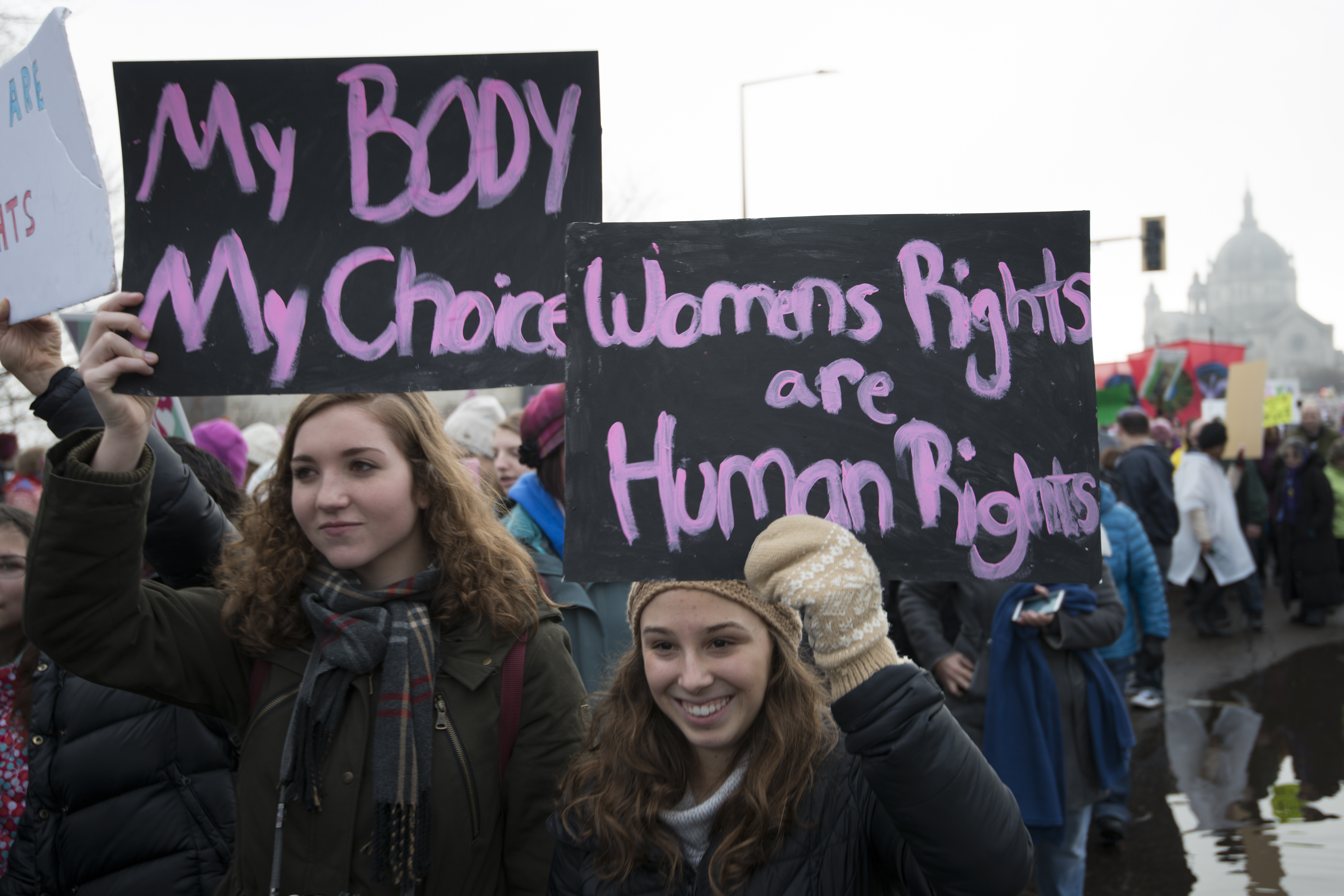 St. Paul, Minnesota January 21, 2017 Over 30,000 people gathered in St. Paul and marched to the Minnesota capitol to protest Republican President Donald Trump. This protest was in solidarity with the national Women's March on Washington DC. The protesters spoke out against Trump's proposed policies and decried the rhetoric of the 2016 election for being insulting and threatening to women. 2017-01-21 This is licensed under the Creative Commons Attribution License. Give attribution to: Fibonacci Blue